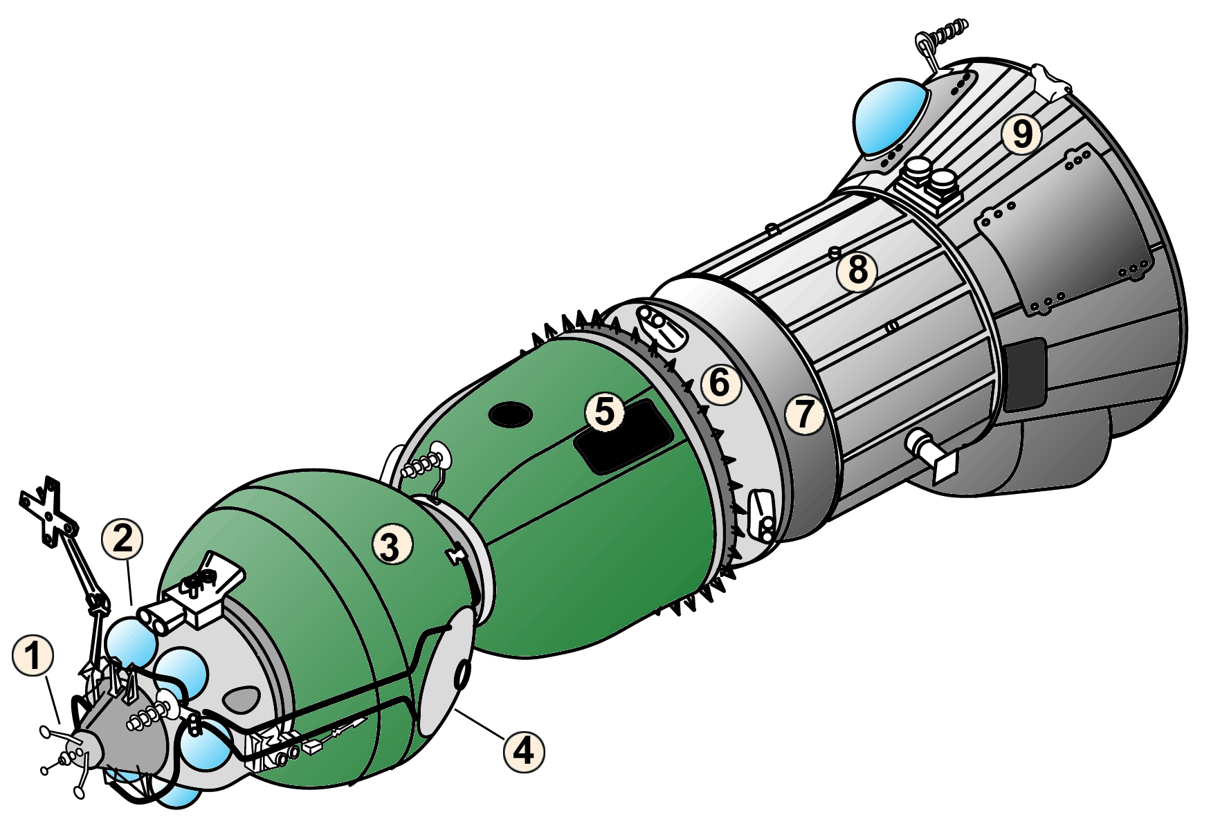 LOK spacecraft drawing At the front of the spacecraft (left) is the Aktiv unit of the lunar mission Kontakt docking system.